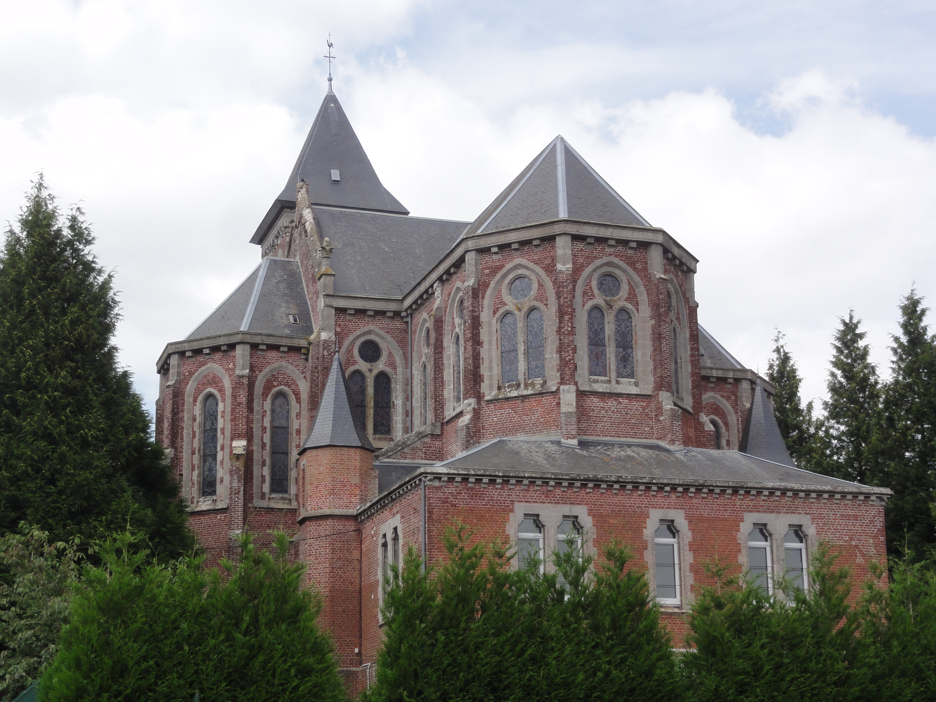 Brancourt-le-Grand (Aisne) église